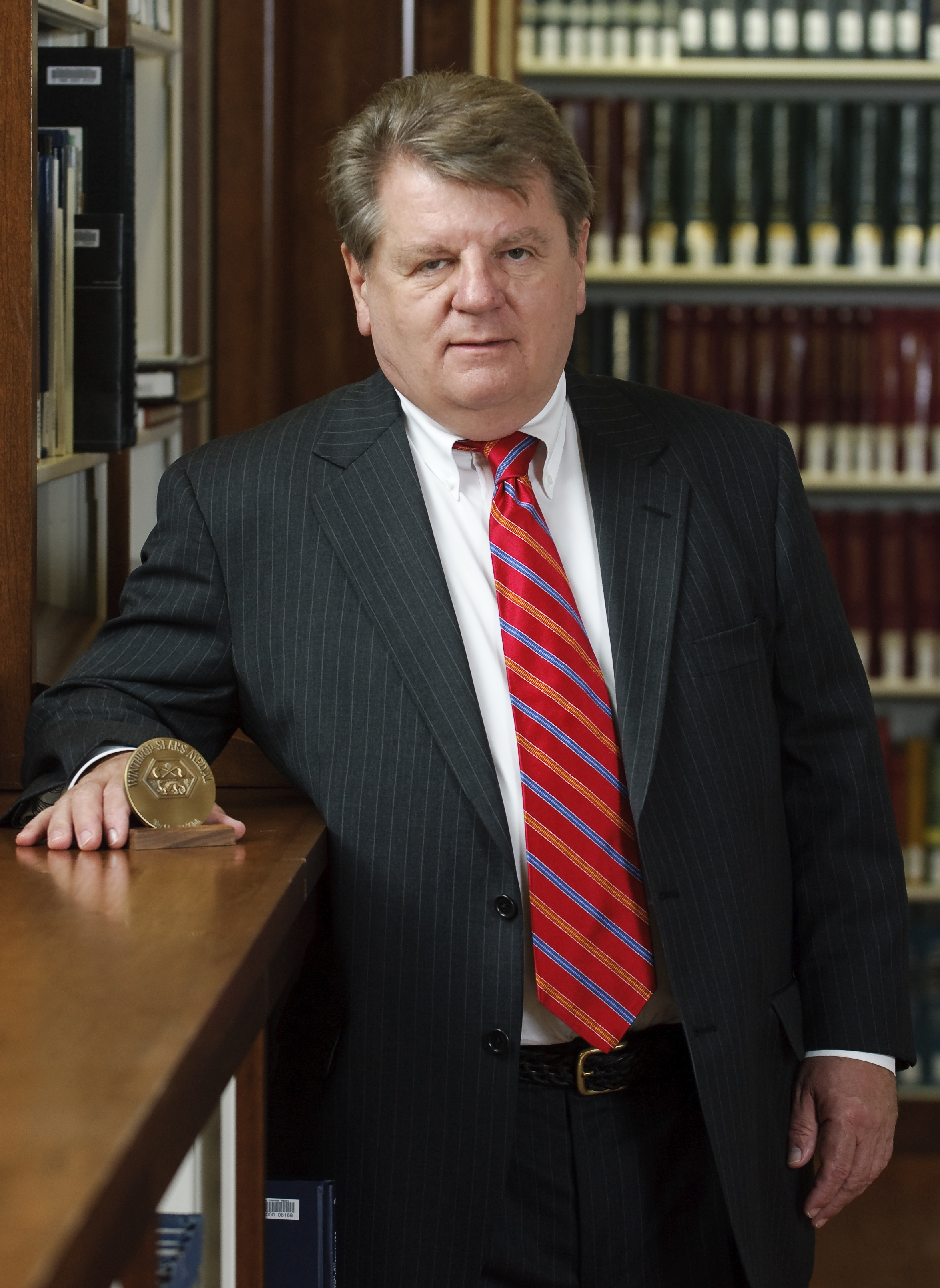 Photograph of Zsolt Rumy, chemist and recipient of the 2009 Winthrop-Sears Medal, presented 14 May 2009, at Heritage Day, Chemical Heritage Foundation, Philadelphia, PA, USA.